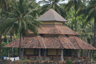 Karkala